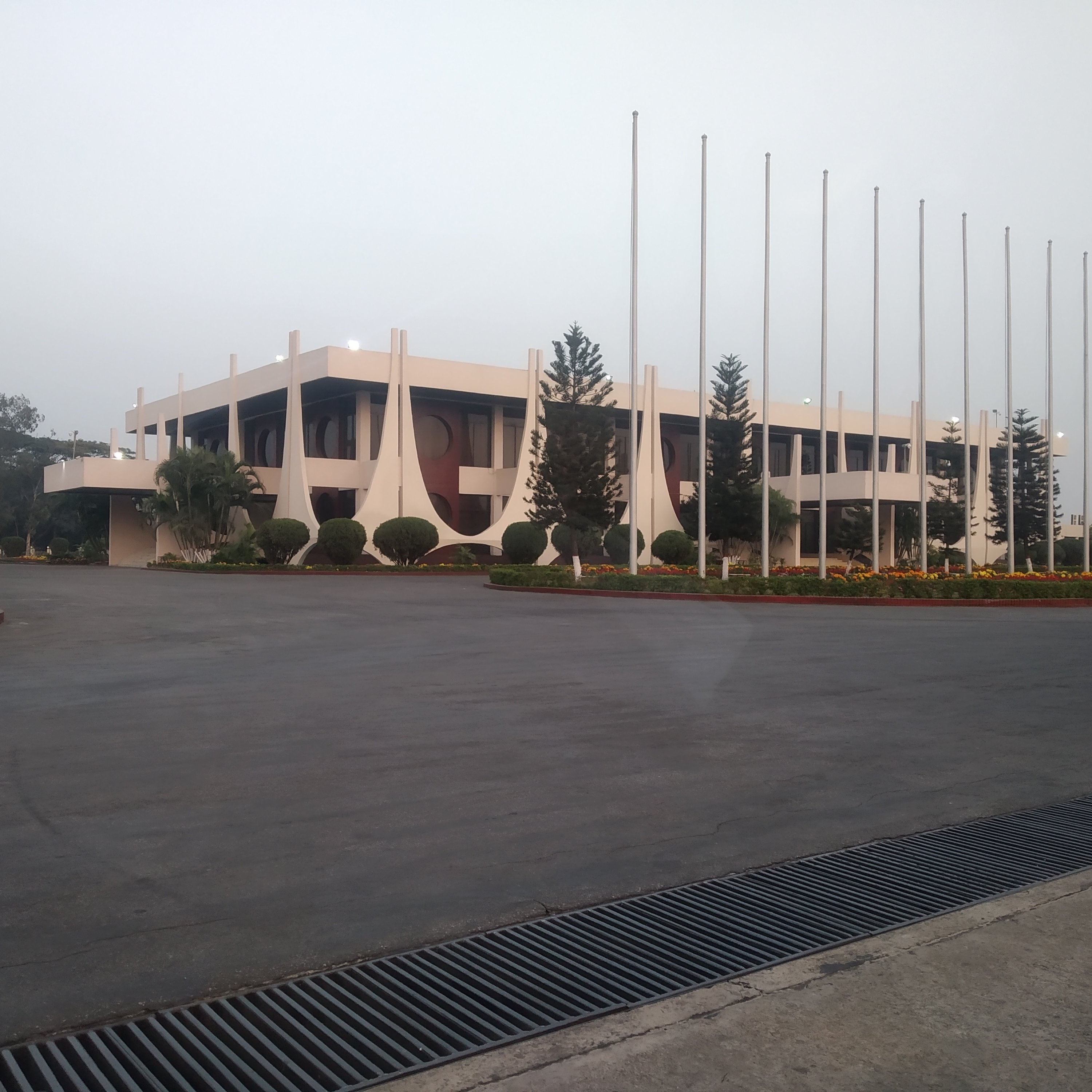 VVIP and VIP Lounges at the Hazrat Shahjalal International Airport